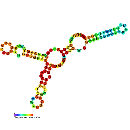 Secondary structure image for SAM-IV non coding RNA (RF00634). Nucleotide colouring indicates sequence conservation between the members of this family.